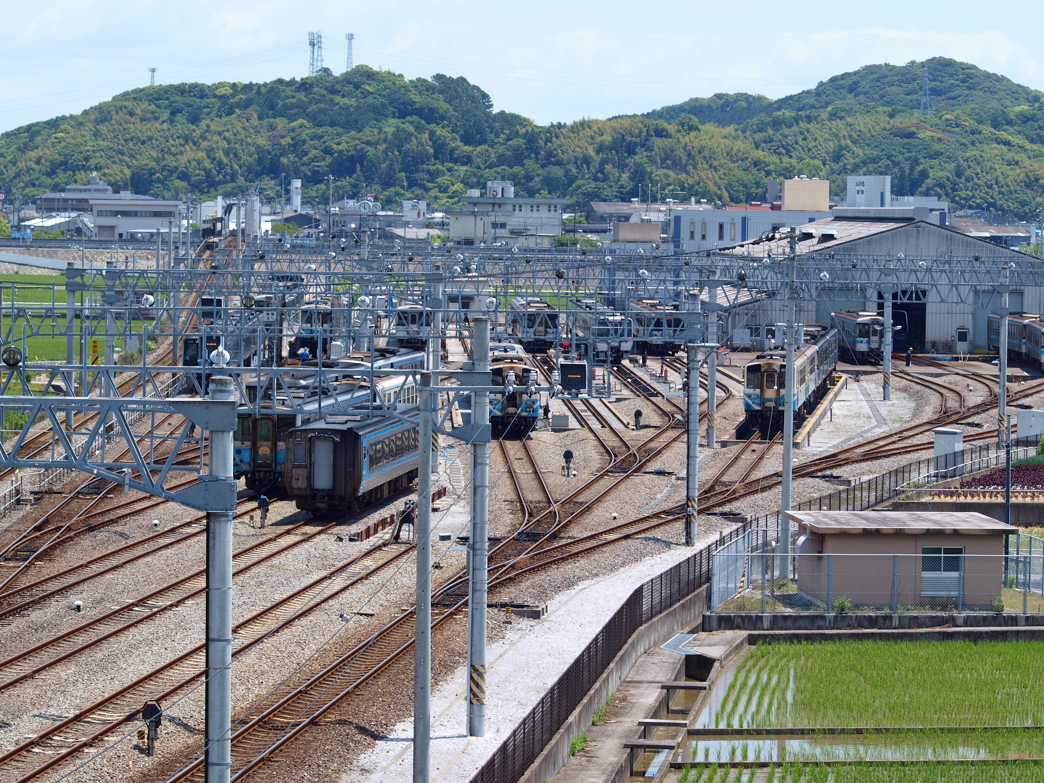 Kōchi Untensho